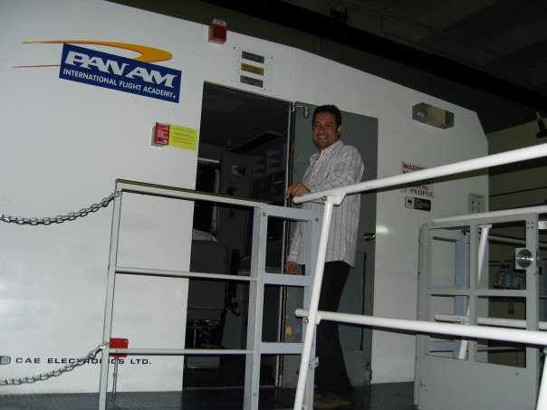 Pan Am International Flight Academy, Miami - Simulator